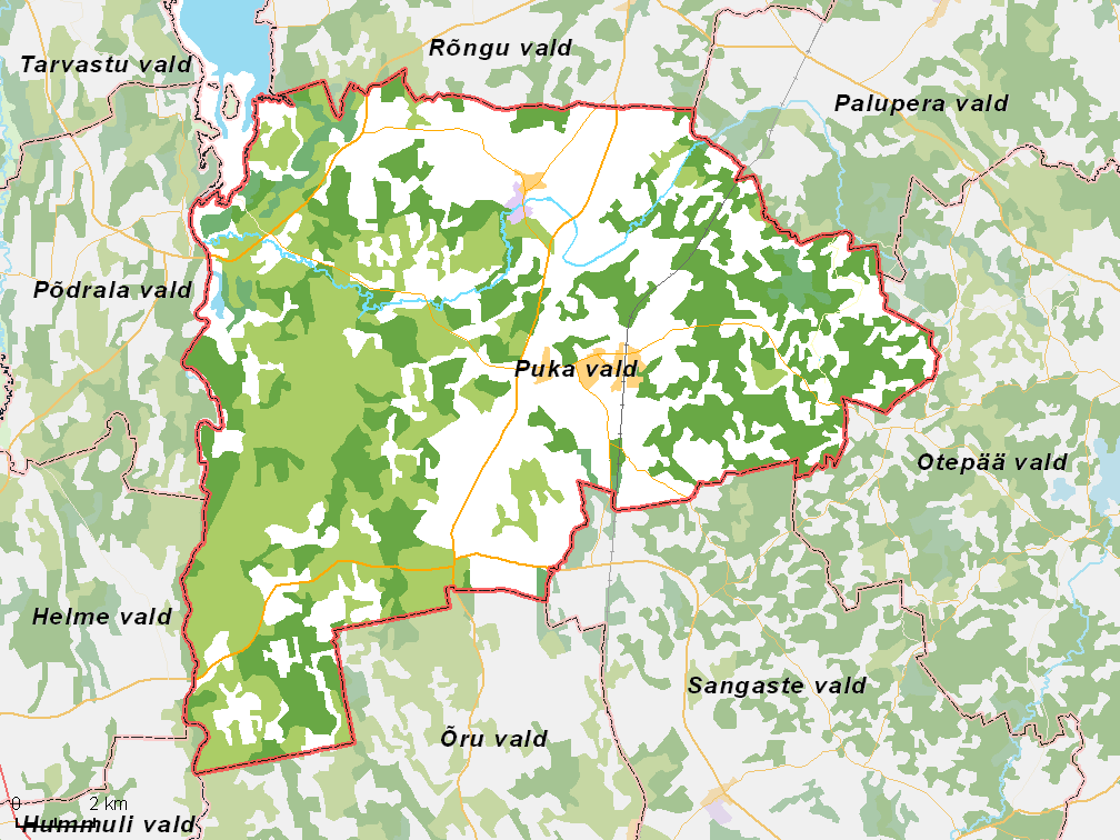 Map of municipality in Estonia